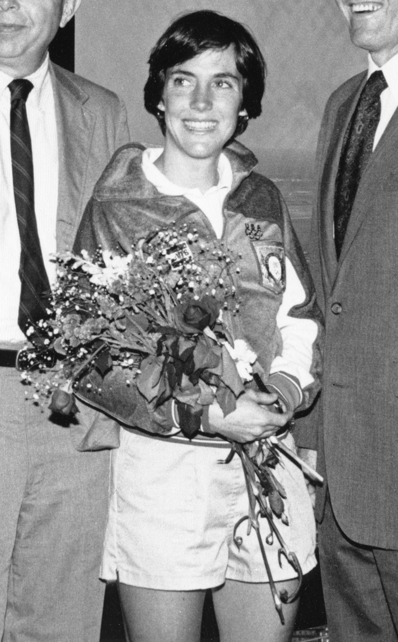 Title: Unidentified man, Runner Joan Benoit, Mayor Raymond L. Flynn, unidentified man Creator: Mayor's Office - City Photographer Date: circa 1984 Source: Mayor Raymond L. Flynn records, Collection #0246.001 File name: RF_072 Rights: Copyright City of Boston Citation: Mayor Raymond L. Flynn records, Collection #0246.001, City of Boston Archives, Boston